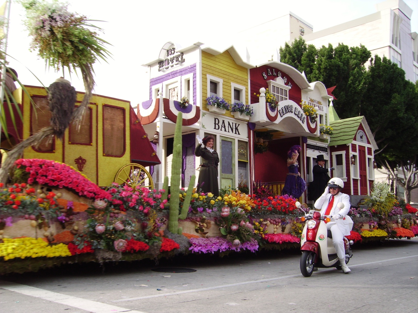 Tournament of Roses Parade float with white coat volunteer on scooter